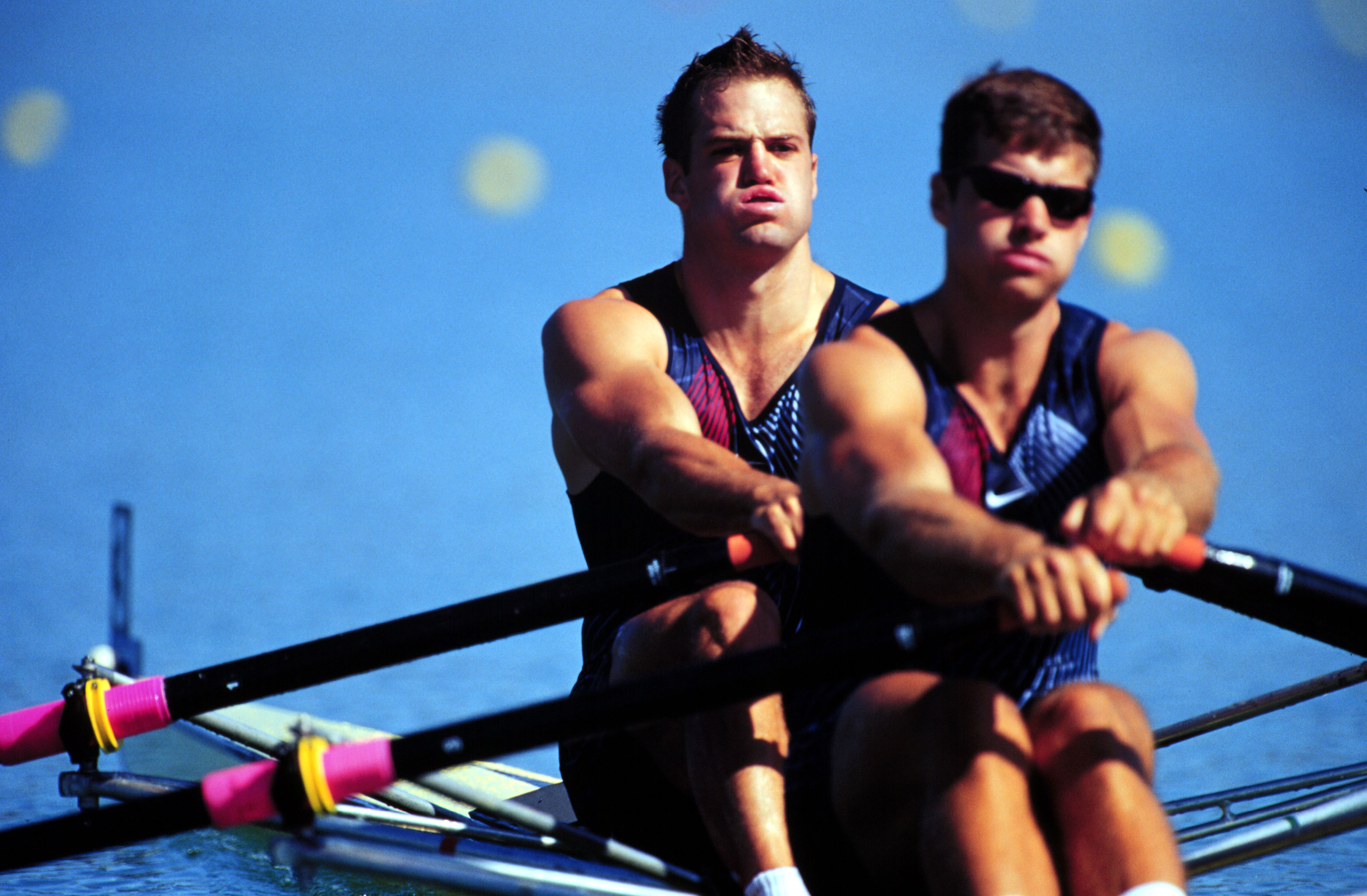 Ensign Henry Nuzum (left) and Mike Ferry stroke their way toward a second place finish during the semi-finals, or repechage, of the men's double sculls round at the 2000 Olympic Games in Sydney, Australia, on Sept. 19, 2000. Nuzum is one of 15 U.S. military athletes are competing in the 2000 Olympic games as members of the U.S. Olympic team. In addition to the 15 competing athletes there are eight alternates and five coaches representing each of the four services in various venues. Nuzum and Ferry will advance to the next round of on Thursday, Sept. 21.